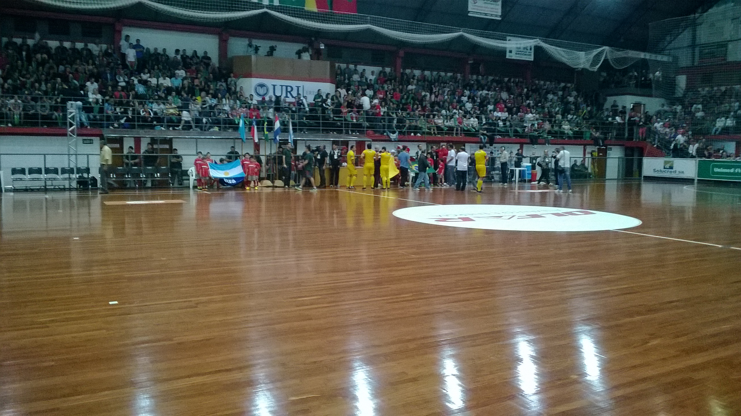 Final of Libertadores da America Futsal 2014 between Atlantico and Boca Juniors in Erechim, RS.